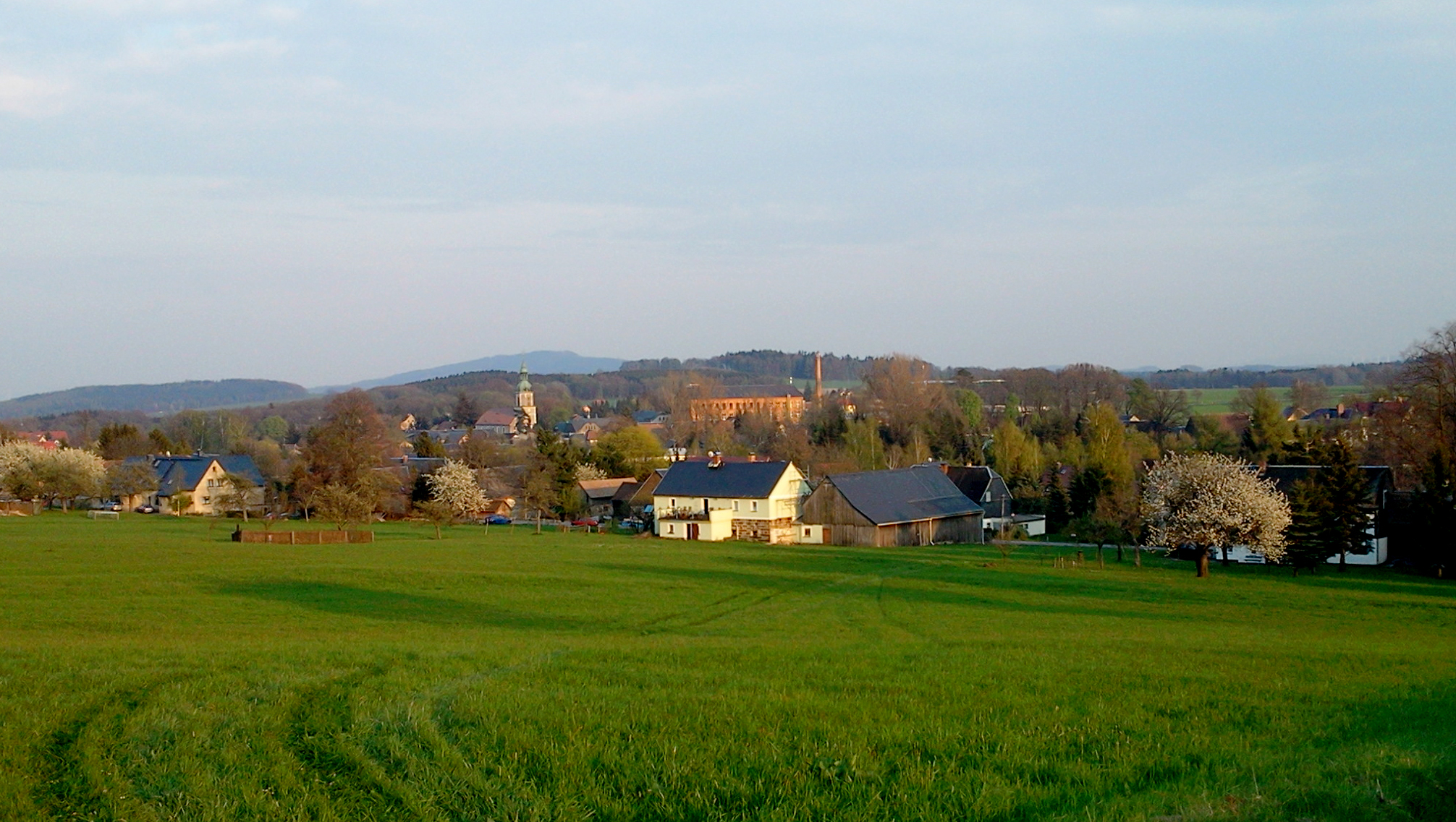 Schoenbach/Saxony from Beiersdorf